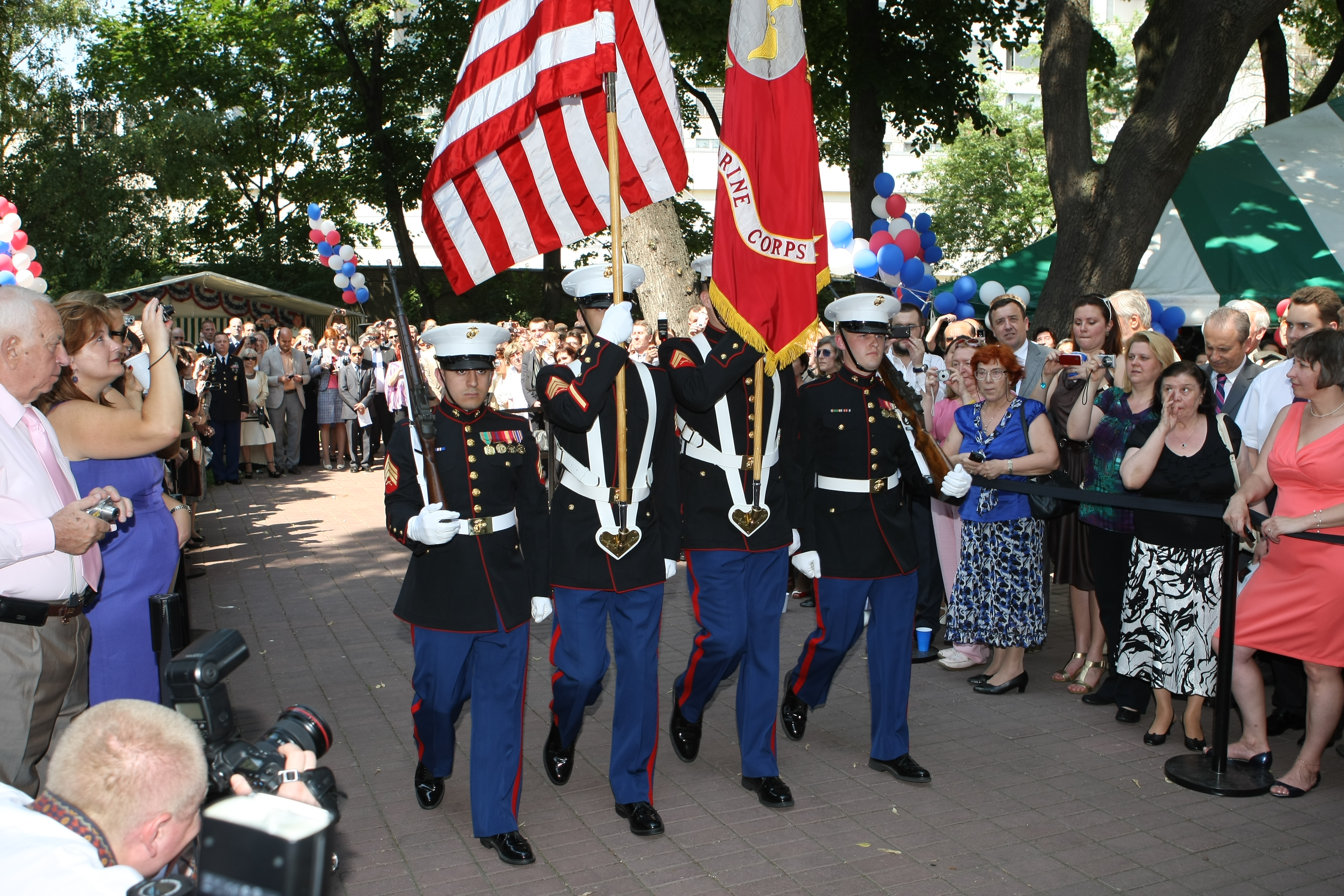 4th of July Ceremony held at Spaso House on July 2, 2010